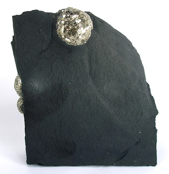 Pyrite Locality: Millstream Station, Pilbara Region, Western Australia, Australia (Locality at ) Size: 11.3 x 9.6 x 3.4 cm. A sharp, bright, approximately 1-inch ball of crystallized pyrite, perched in shale matrix for stunning contrast! Ex. Charlie Key.